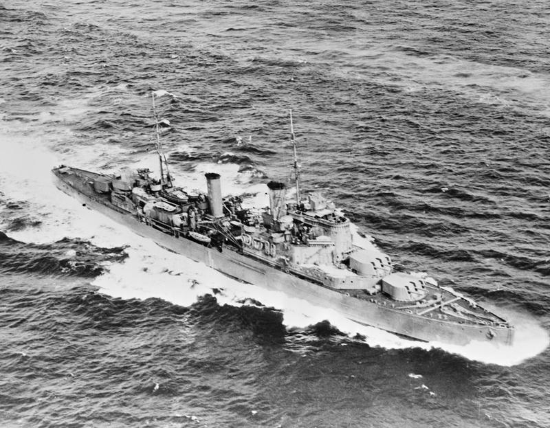 HMS FIJI, 28 August 1940 Underway.